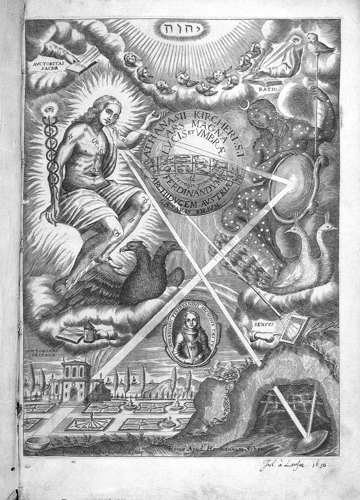 Frontispiece illustration. Rare Books